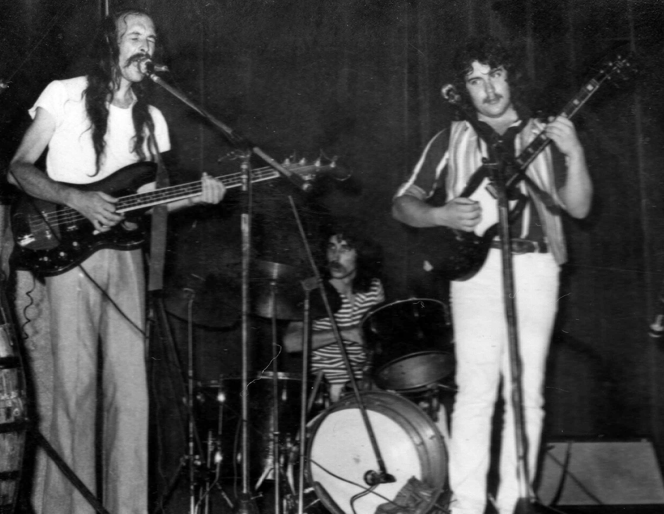 Dias de Blues